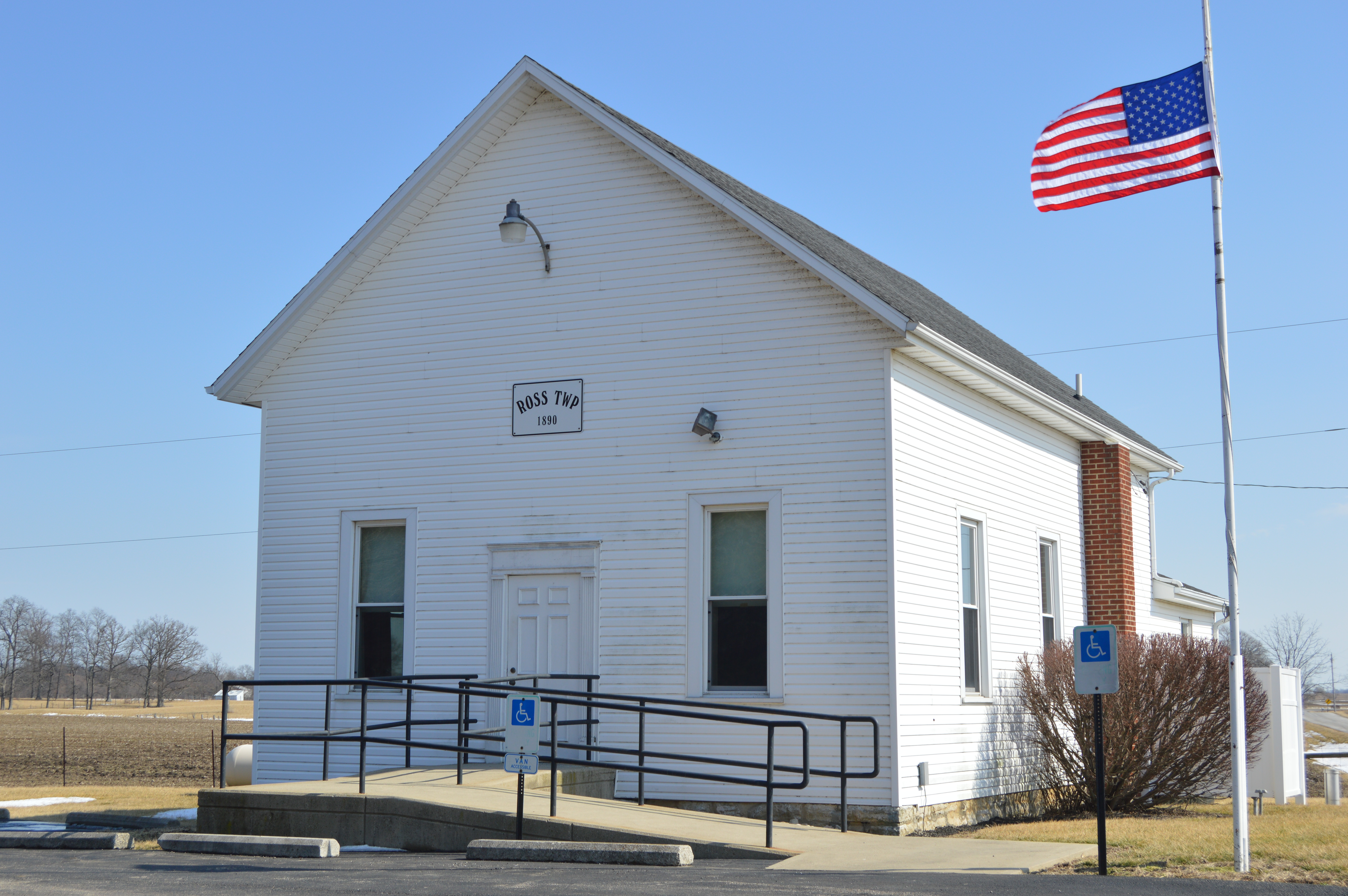 Front and southwestern side of the Ross Township hall, located at the intersection of Grape Grove and South Charleston Roads in Ross Township, Greene County, Ohio, United States.